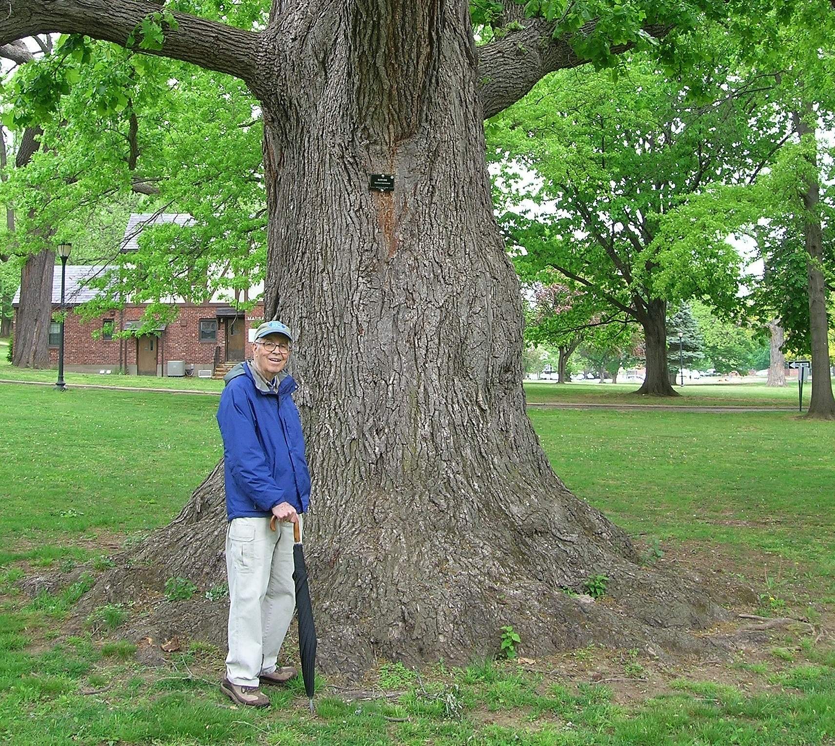 Photograph of Edward A. Richardson with one of his favorite trees - a Bur Oak located at the Institute of Living in Hartford, Connecticut. The photo was taken in May 2015.